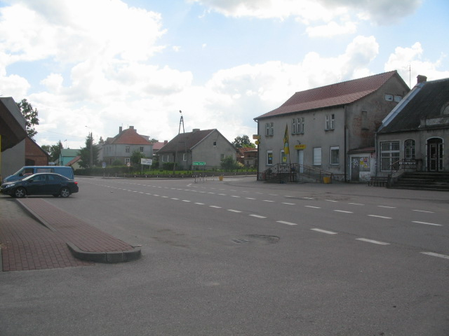 centre of Stary Targ